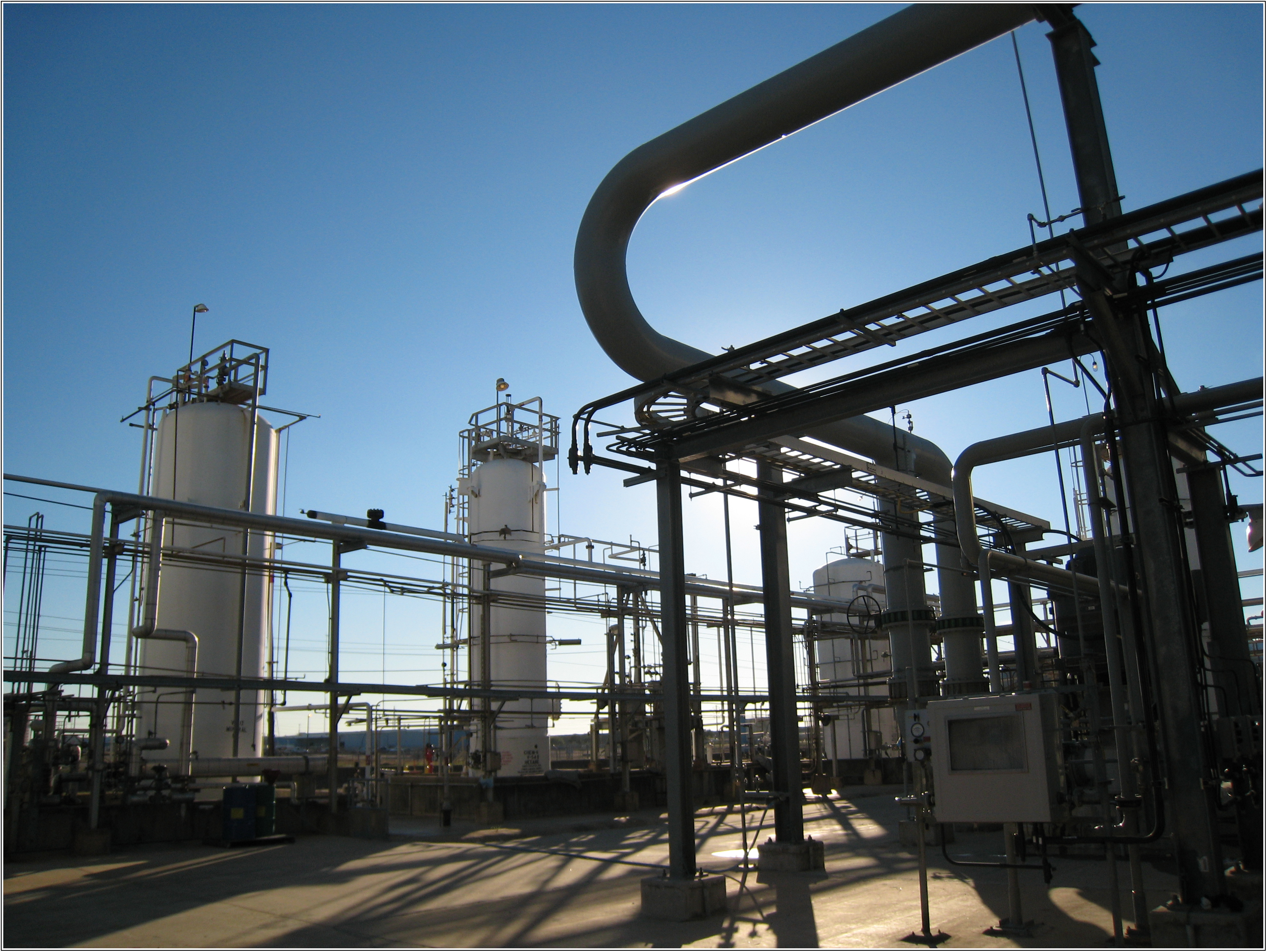 The Petrochemical Industry dominates the Baytown, Texas skyline.